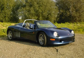 Duncans' Tommy Kaira ZZ